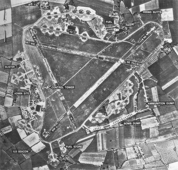 Aerial photograph of Deopham Green Airfield, England.